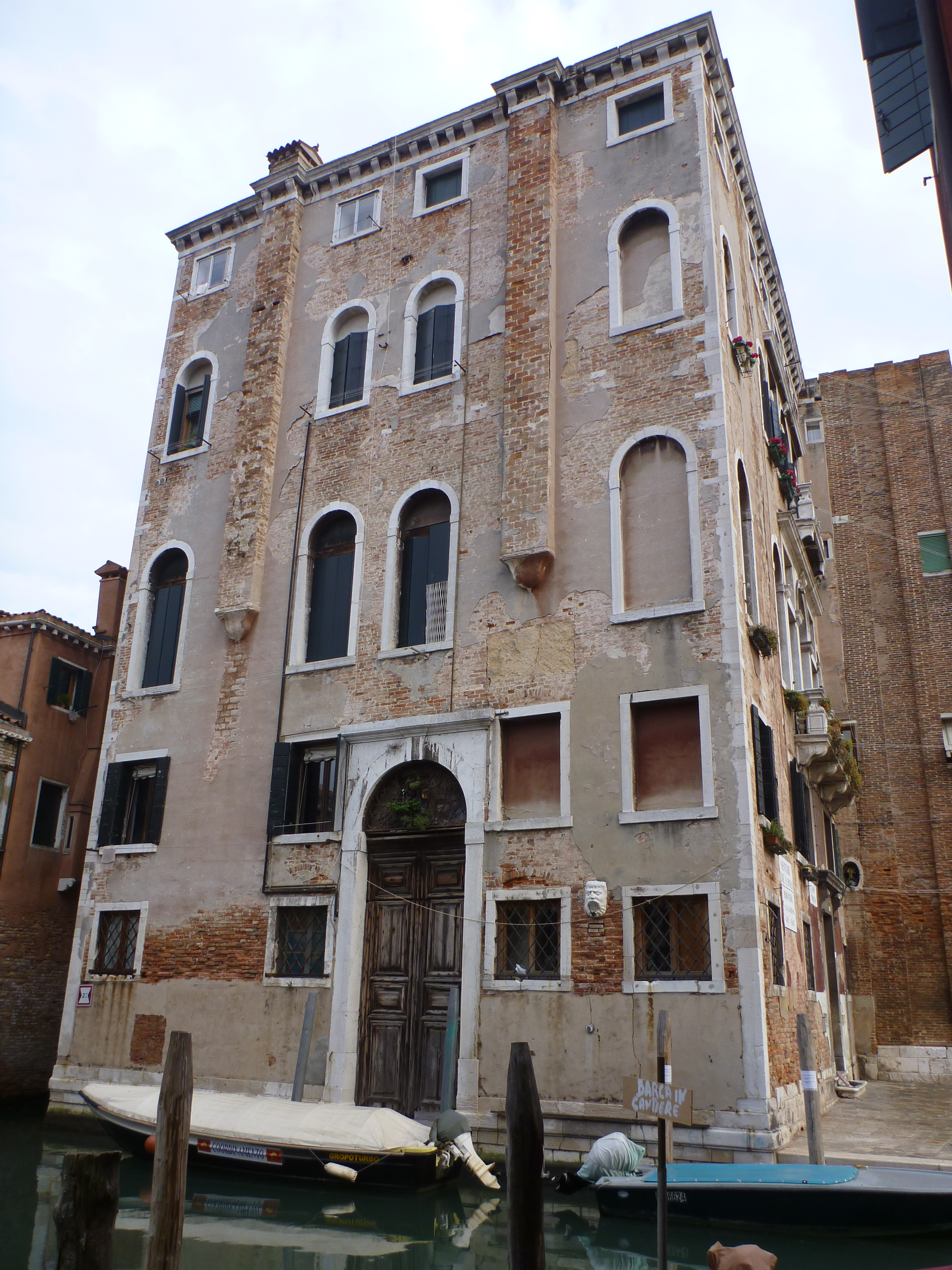 Palazzo Grioni or Palazzo Businello San Boldo, San Polo, Venezia